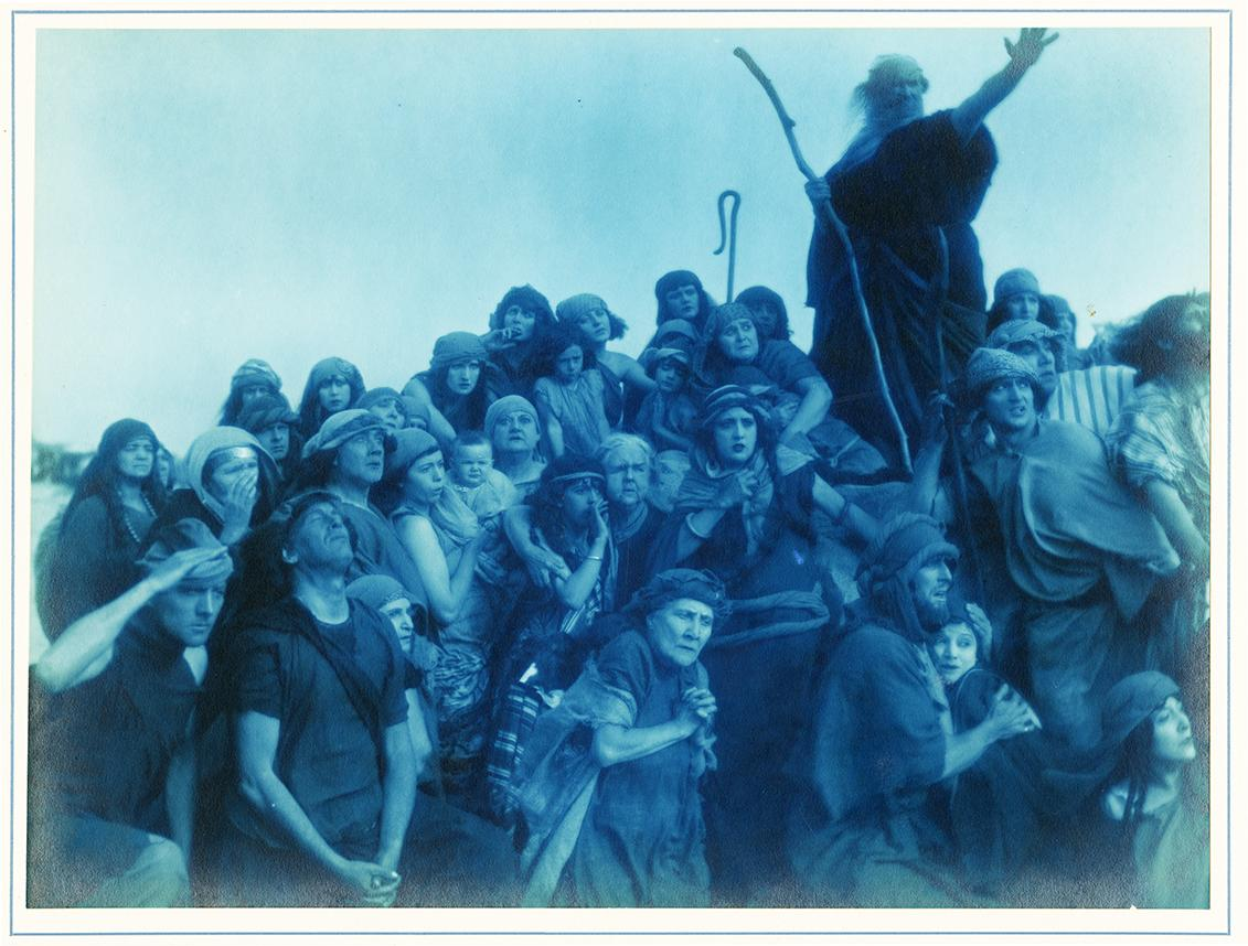 Title: Scene from Cecil B. DeMille's The Ten Commandments Repository: California Historical Society Digital object ID: PC-RM-Curtis_391 Call Number: PC-RM-Curtis Collection: Photographs of the filming of Cecil B. DeMille's The Ten Commandments Photographer: Curtis, Edward S. Date: 1923 Physical description: Photographic print on printed mounts: silver gelatin, blue-tinted; 38 x 50 cm. General notes: Mounts imprinted: The Edward S. Curtis Studio 668 South Rampart, Los Angeles. Contains images of actors playing scenes in, and exterior and interior sets from, Cecil B. DeMille's The Ten Commandments. Most photos show Theodore Roberts as Moses, and several show Charles de Rochefort (Charles de Roche) as Ramses. Includes group scenes in the dunes, near or in the ocean, and on interior sets. Filmed at Guadalupe-Nipomo Dunes in Santa Barbara County, California. Preferred citation: Scene from Cecil B. DeMille's The Ten Commandments, Photographs of the filming of Cecil B. DeMille's The Ten Commandments, PC-RM-Curtis, courtesy, California Historical Society, PC-RM-Curtis_391.